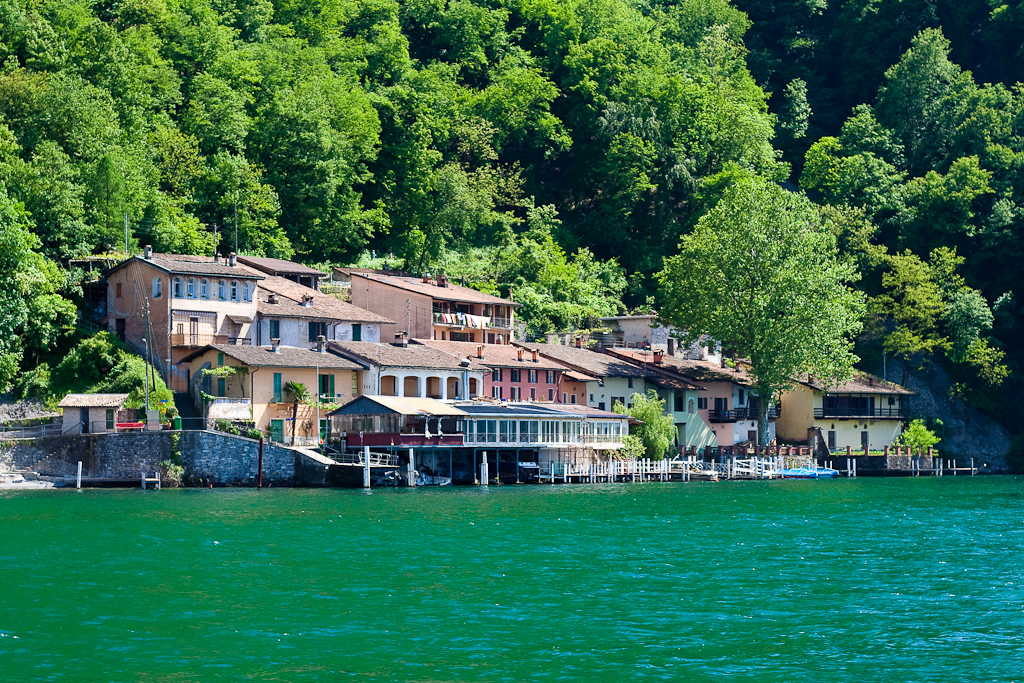 Lake houses near Lugano, Ticino, Switzerland